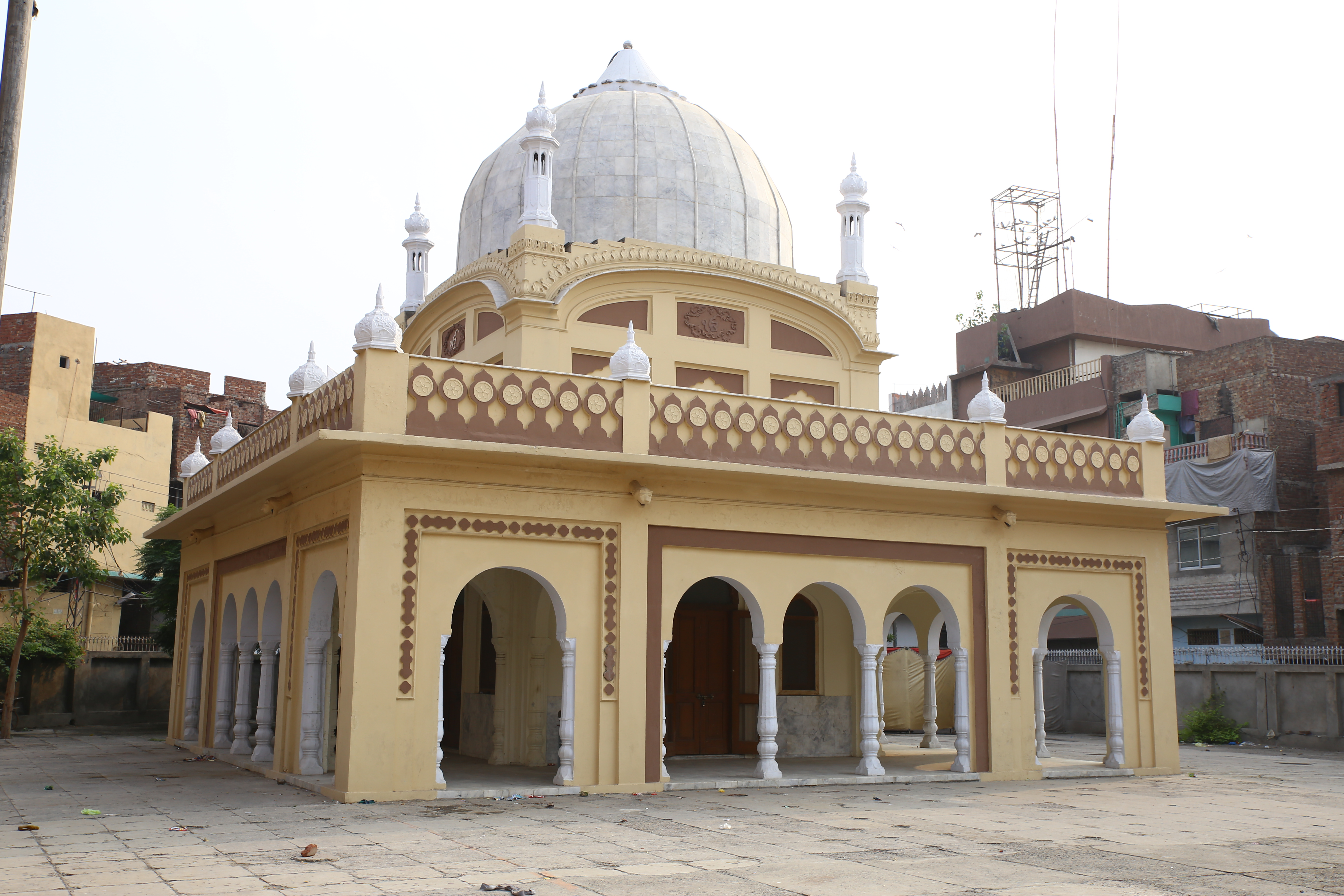 Sir Ganga Ram's Samadhi This is a photo of a monument in Pakistan identified as the PB-P-142